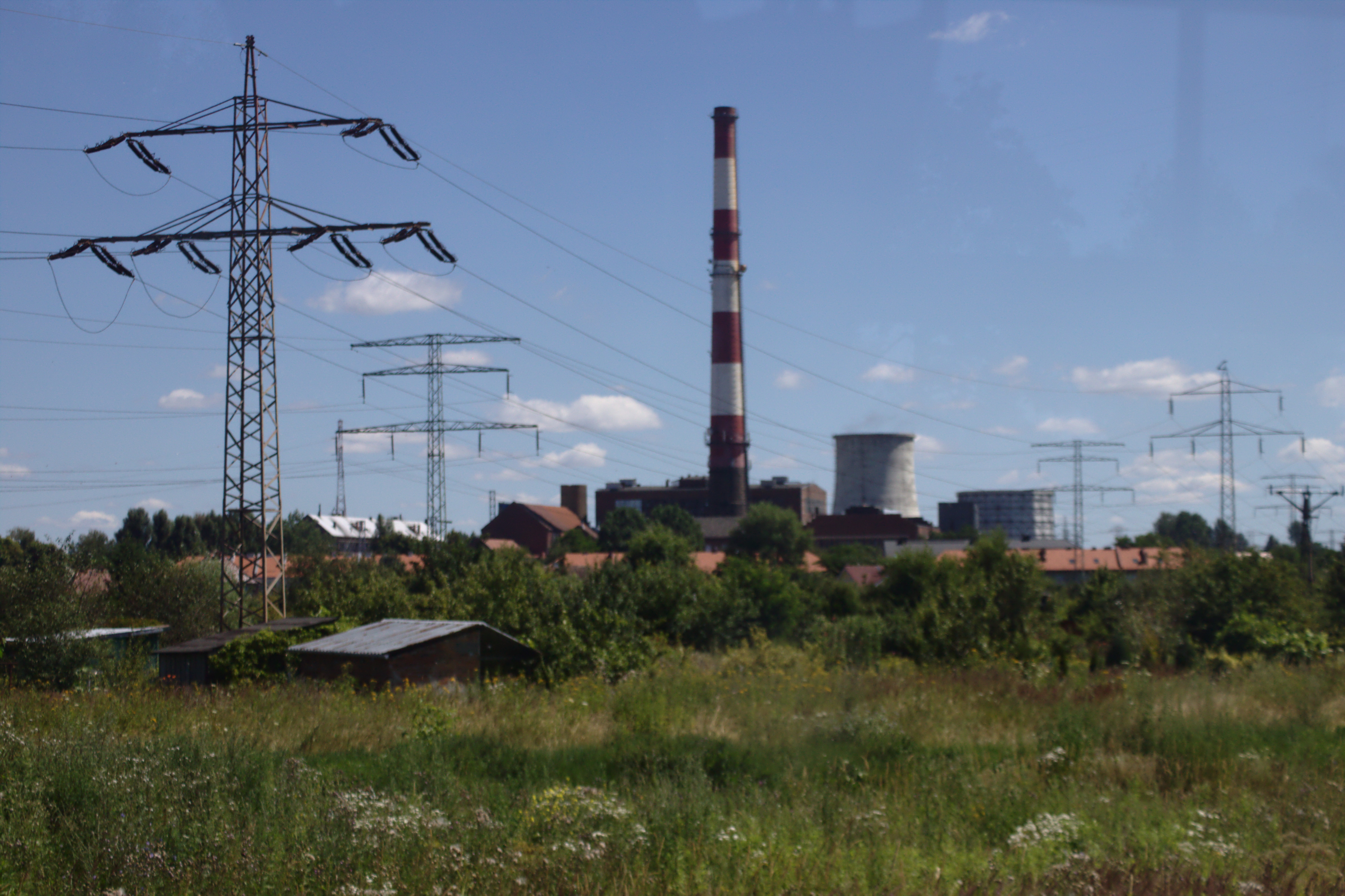 Coal power station near the town of Siechnice, Poland